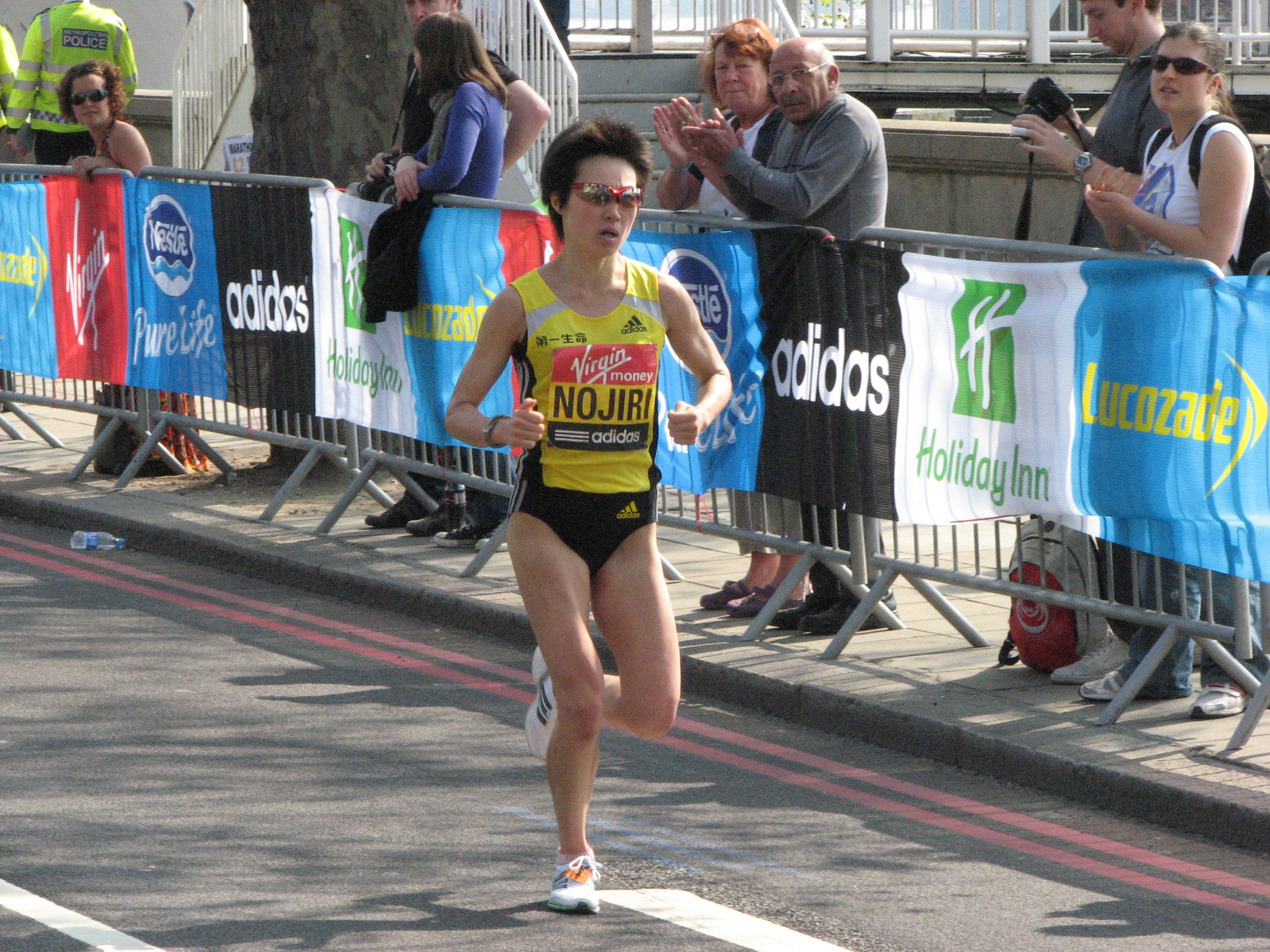 Azusa Nojiri came 12th with 2:25:29. Virgin London Marathon, 17 April 2011. Taken from 24 and a half miles, at the (western) junction of Victoria Embankment and Temple Place, very close to the Walkabout.